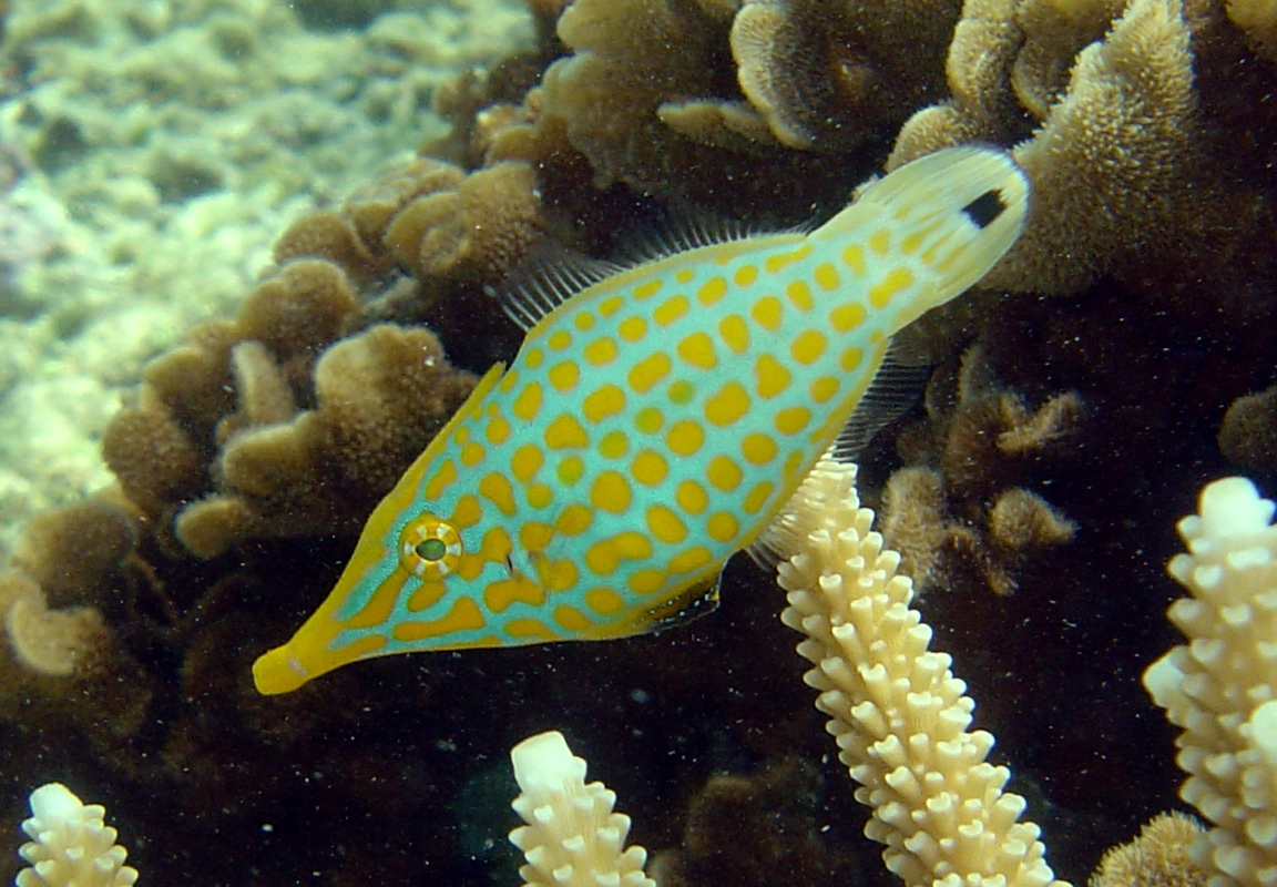 Longnose filefish (Oxymonacanthus longirostris) Image ID: reef0919, NOAA's Coral Kingdom Collection Location: Guam, Mariana Islands